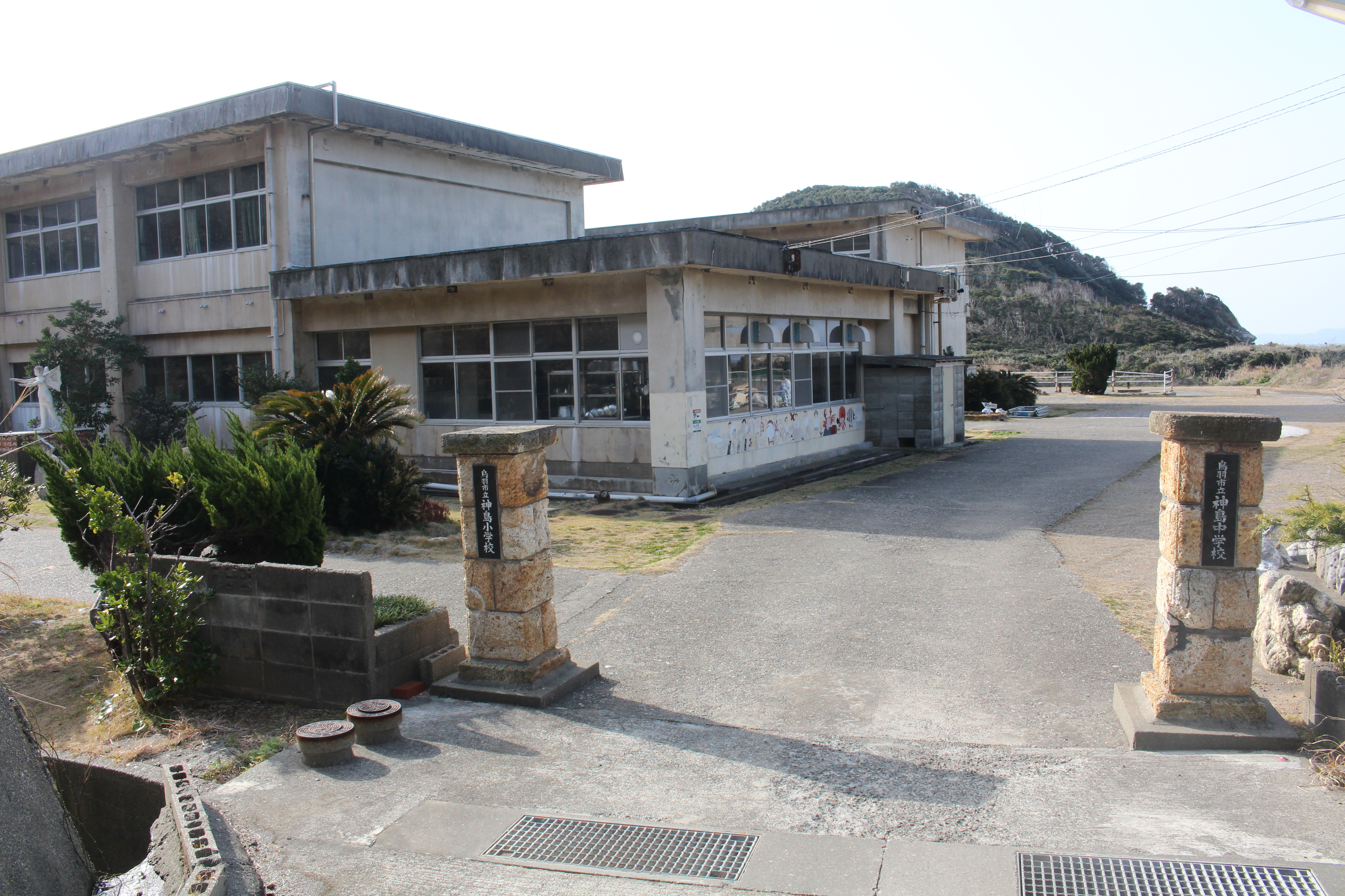 Kamishima Elementary and Lower Secondary School, in Kami Island, Toba, Mie prefecture, Japan.